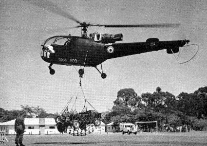 Alouette III helicopter of the Royal Rhodesian Air Force, Federation of Rhodesia and Nyasaland Armed Forces, lifting a short wheelbase Mini Moke at the Umtali (Mutare) Showground during the 1962 Manicaland Agricultural Show. Official photograph sourced from promotional literature being circulated by the Federal government and armed forces at the time.